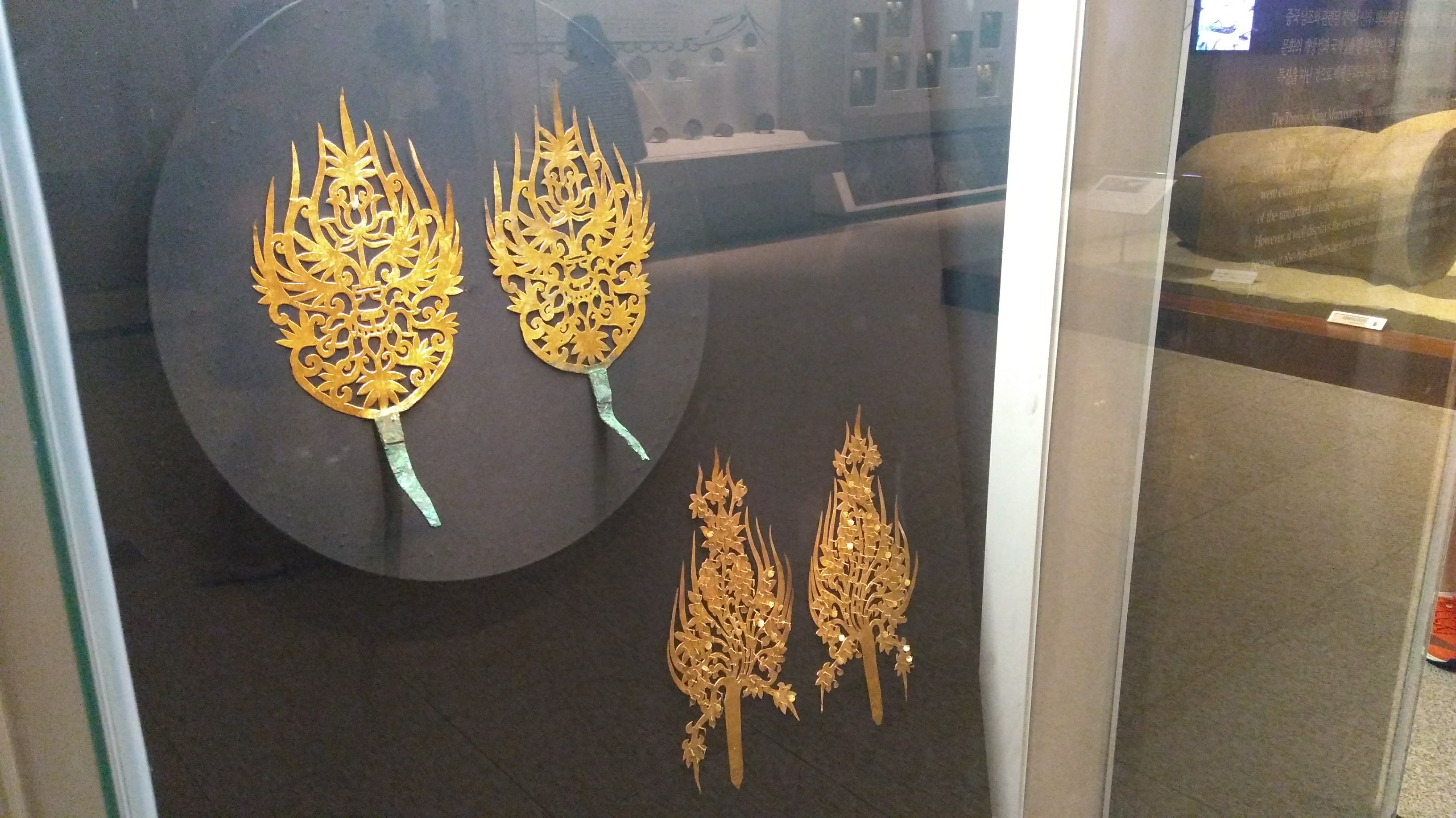 National Museum of Korea, objects